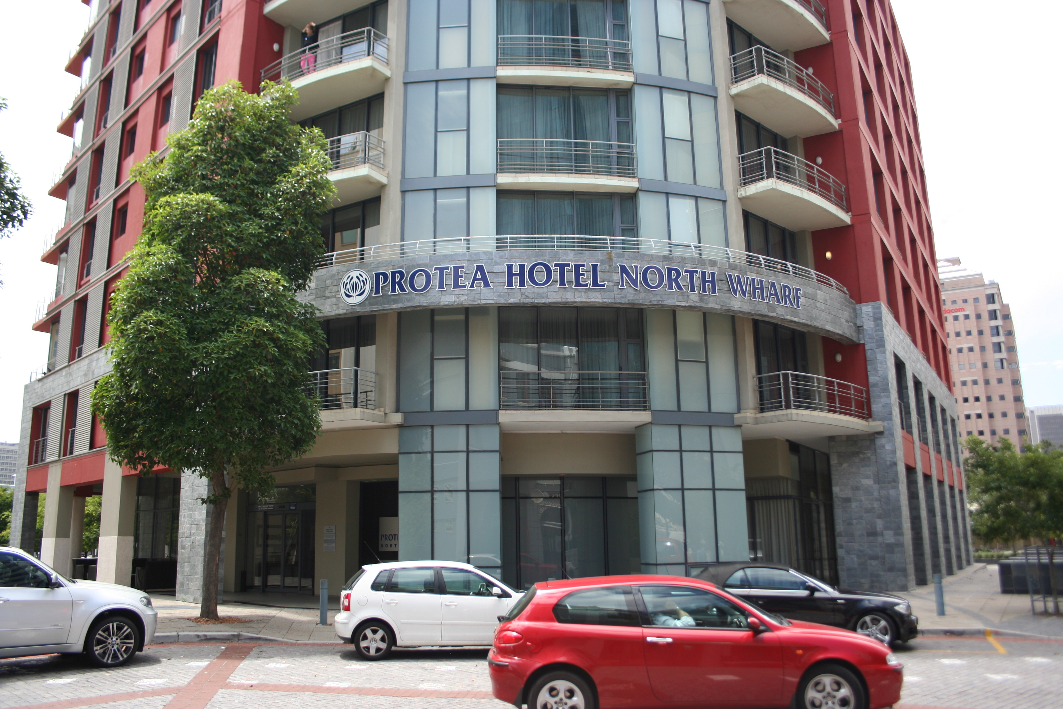 The Protea Hotel North Wharf in Cape Town, South Africa.